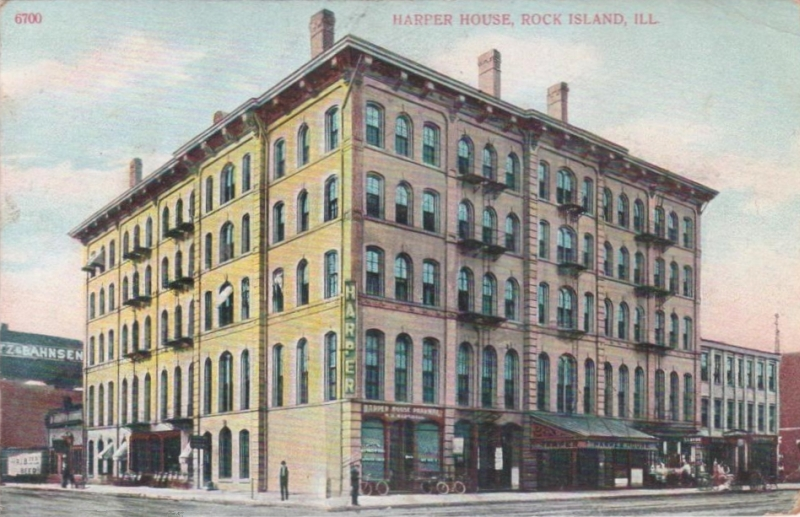 Historic postcard with image of the hotel Harper House (Rock Island, IL)